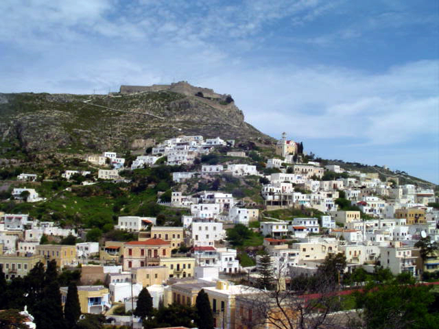 The castle of Leros island, Greece